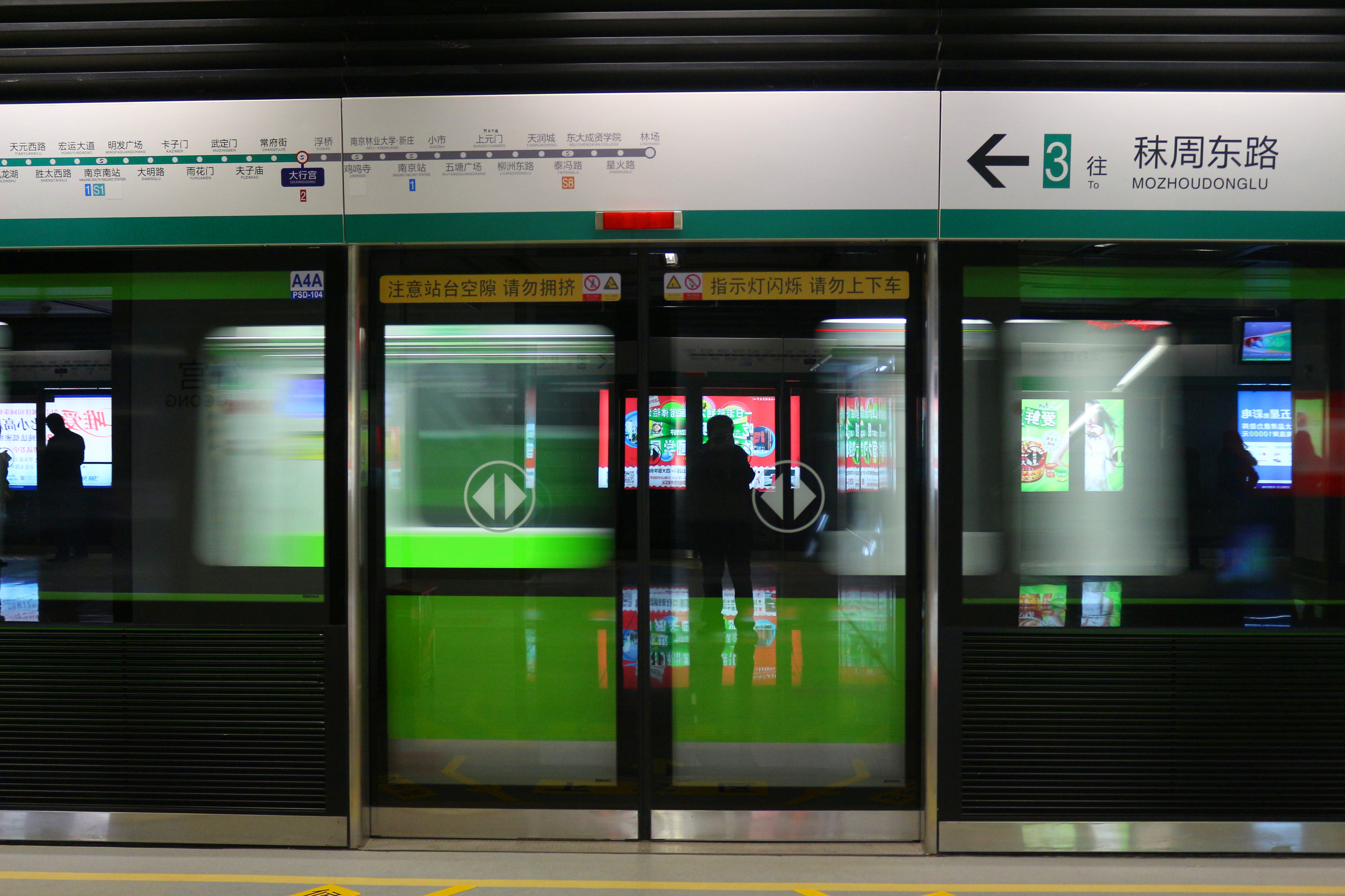 Nanjing Metro Line 3 train leaving Daxinggong Station